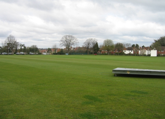 Mays Bounty Cricket Ground